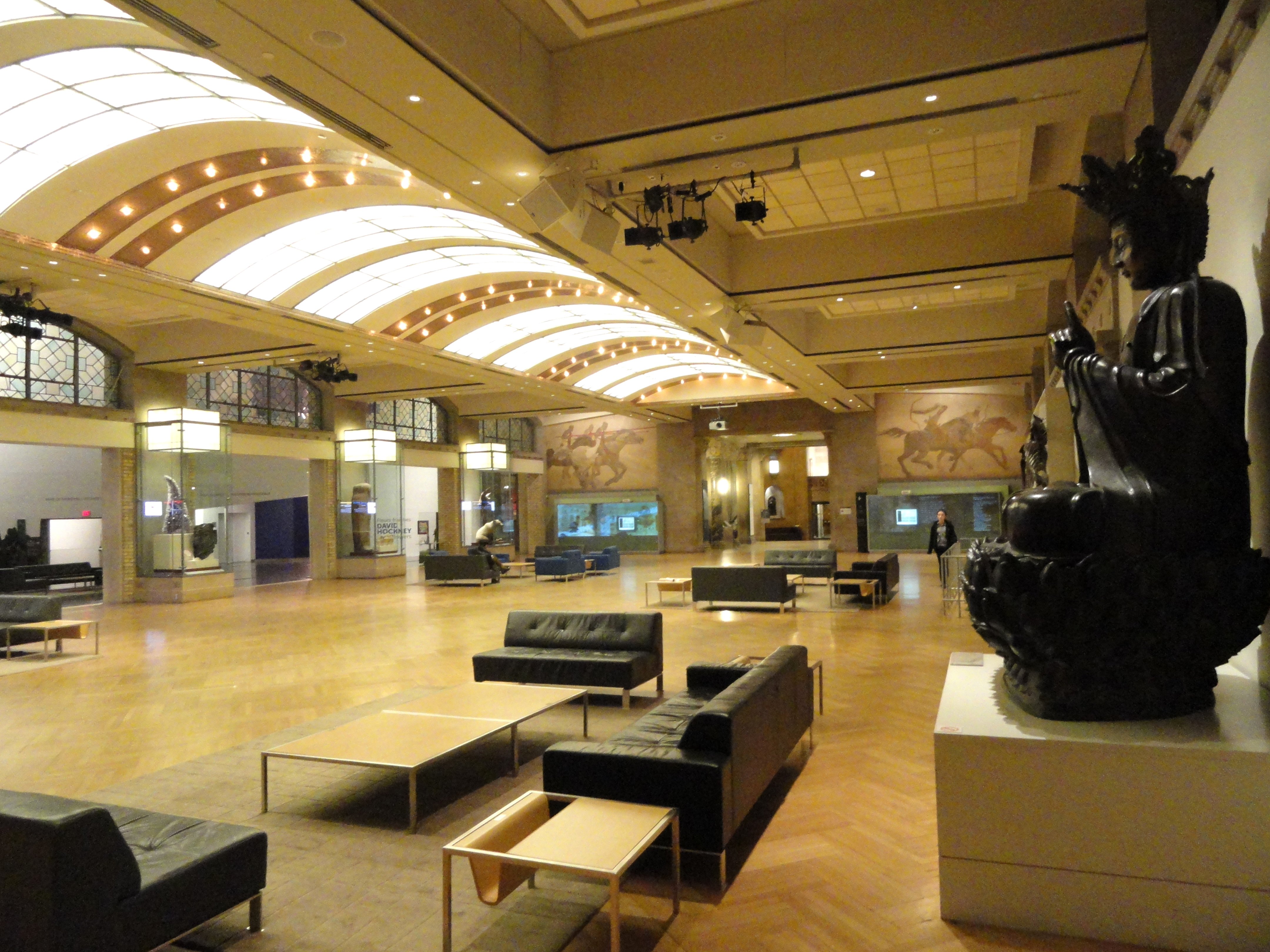 Exhibit in the lobby of the Royal Ontario Museum, Toronto, Ontario, Canada. Credits This exhibit is old enough so that it is in the public domain, and photography was permitted in the museum. I took this photograph and release it into the public domain.